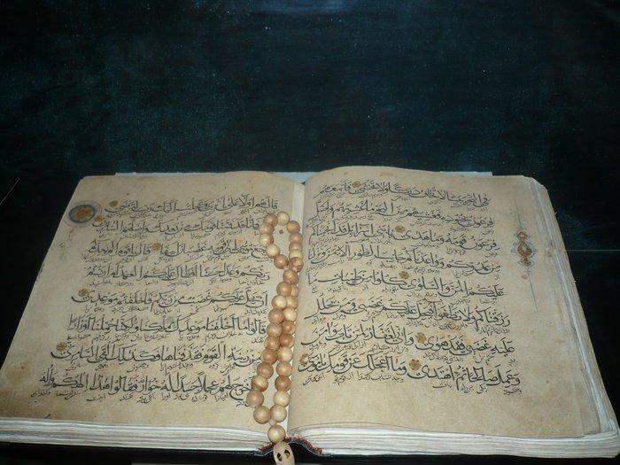 Koran book made by Tatars which can be seen in Khan´s Palace in Bakhchisaray.